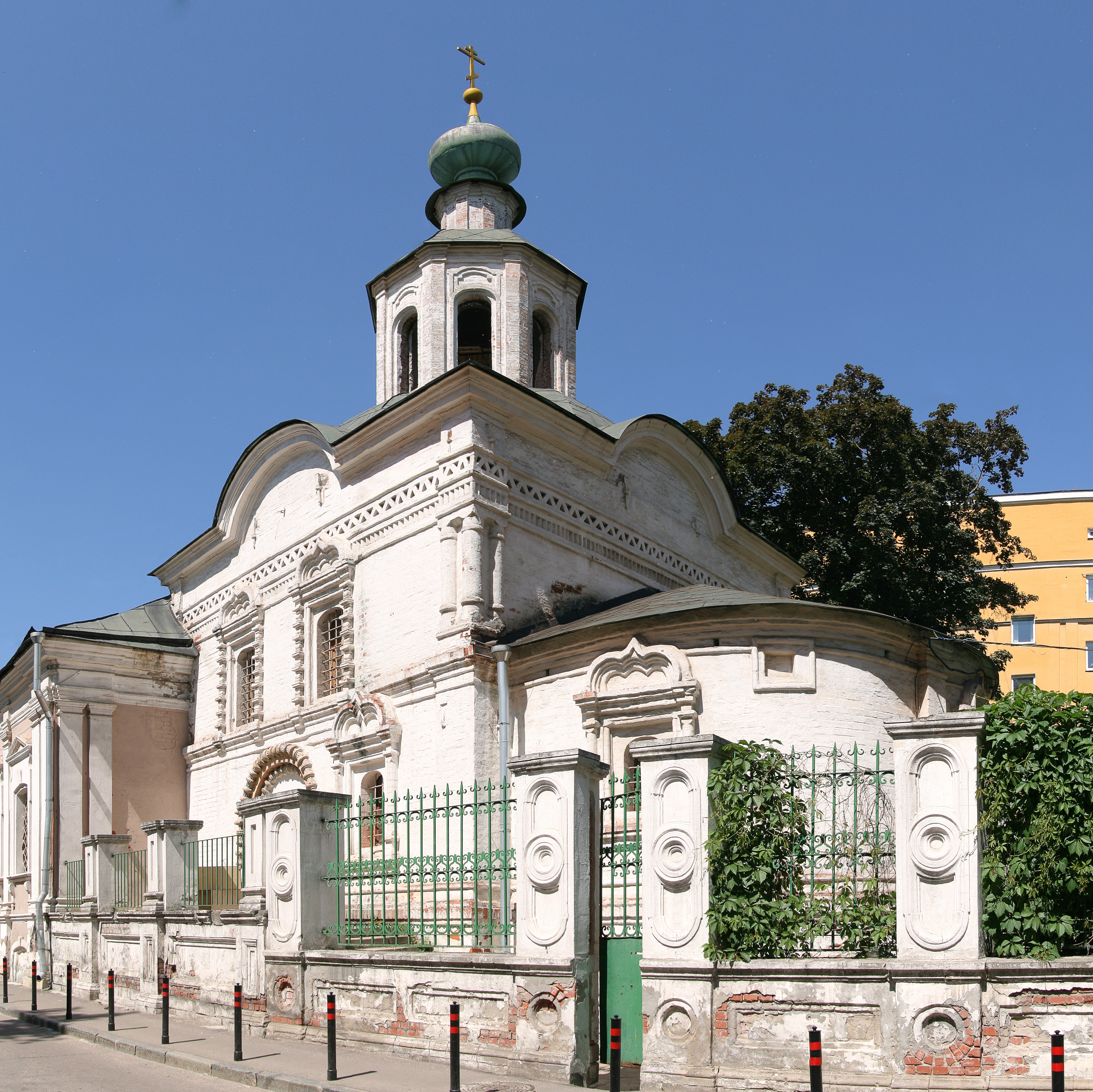 Church of Saint John the Baptist pod Borom, Moscow